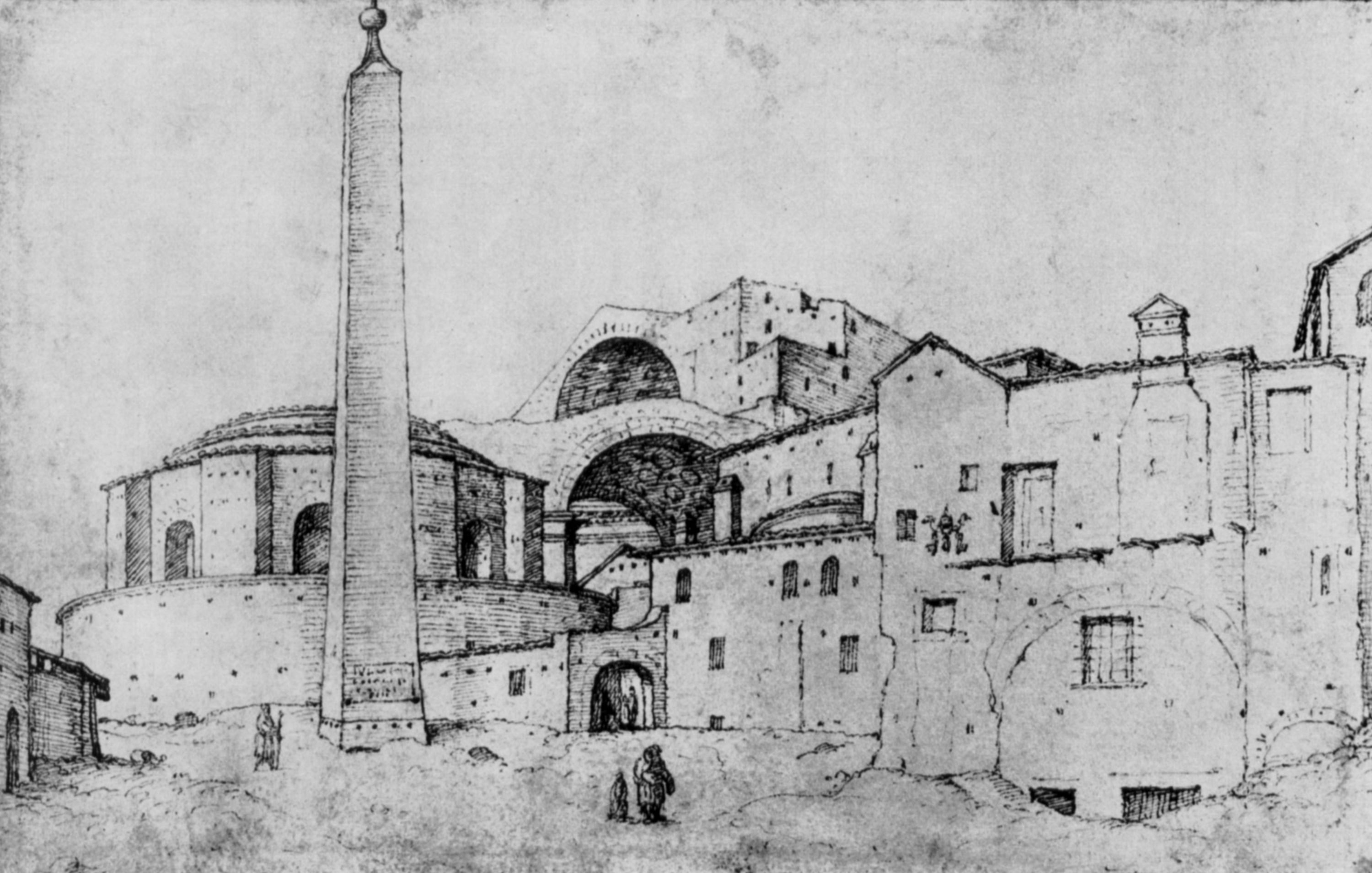 Maarten van Heemskerck: Santa Maria della Febbre, Vatican Obelisk, Saint Peter's Basilica in construction; drawing shortly after 1523